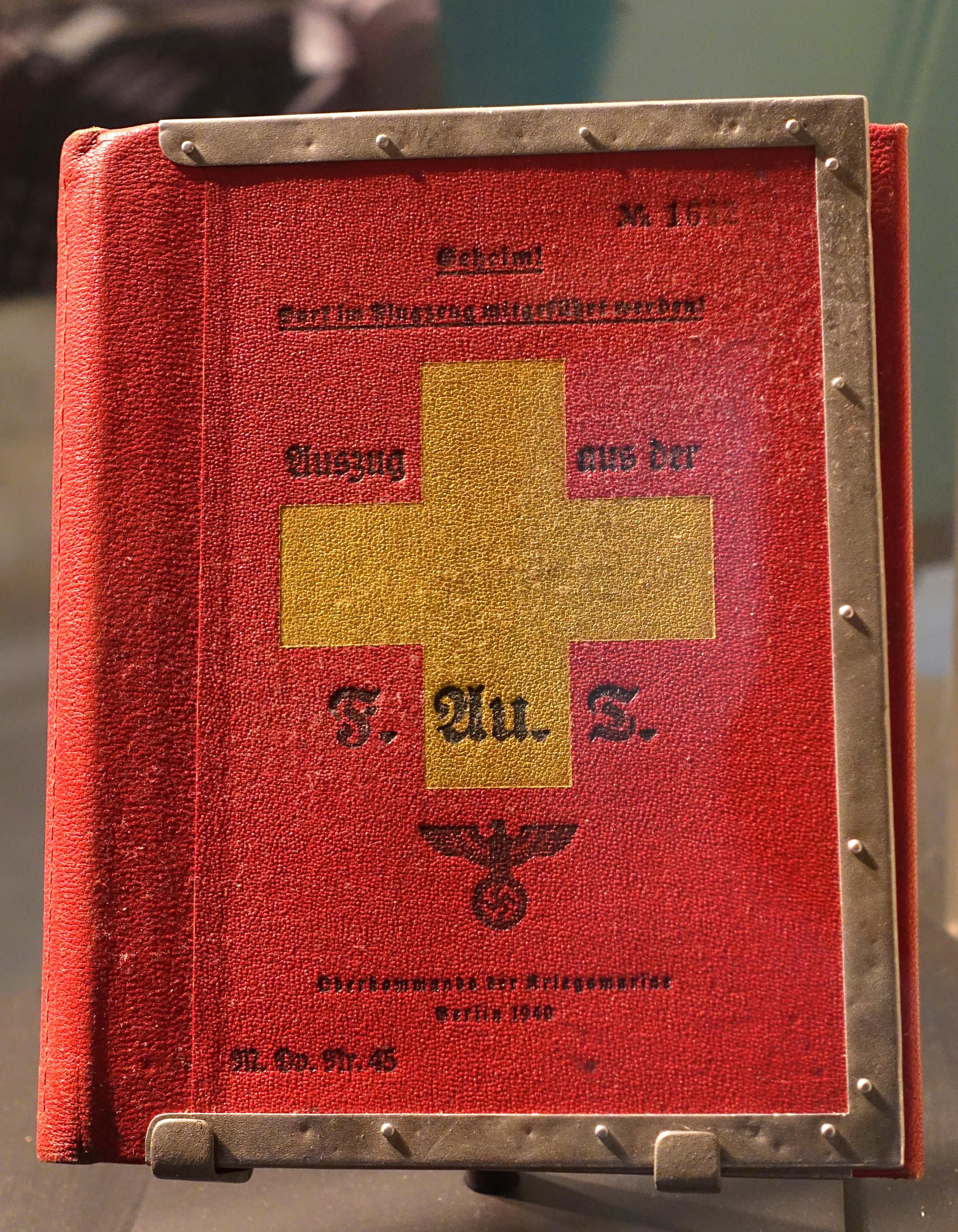 Exhibit in the Museum of Science and Industry, Chicago, Illinois, USA.